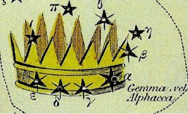 Corona Borealis Constellation